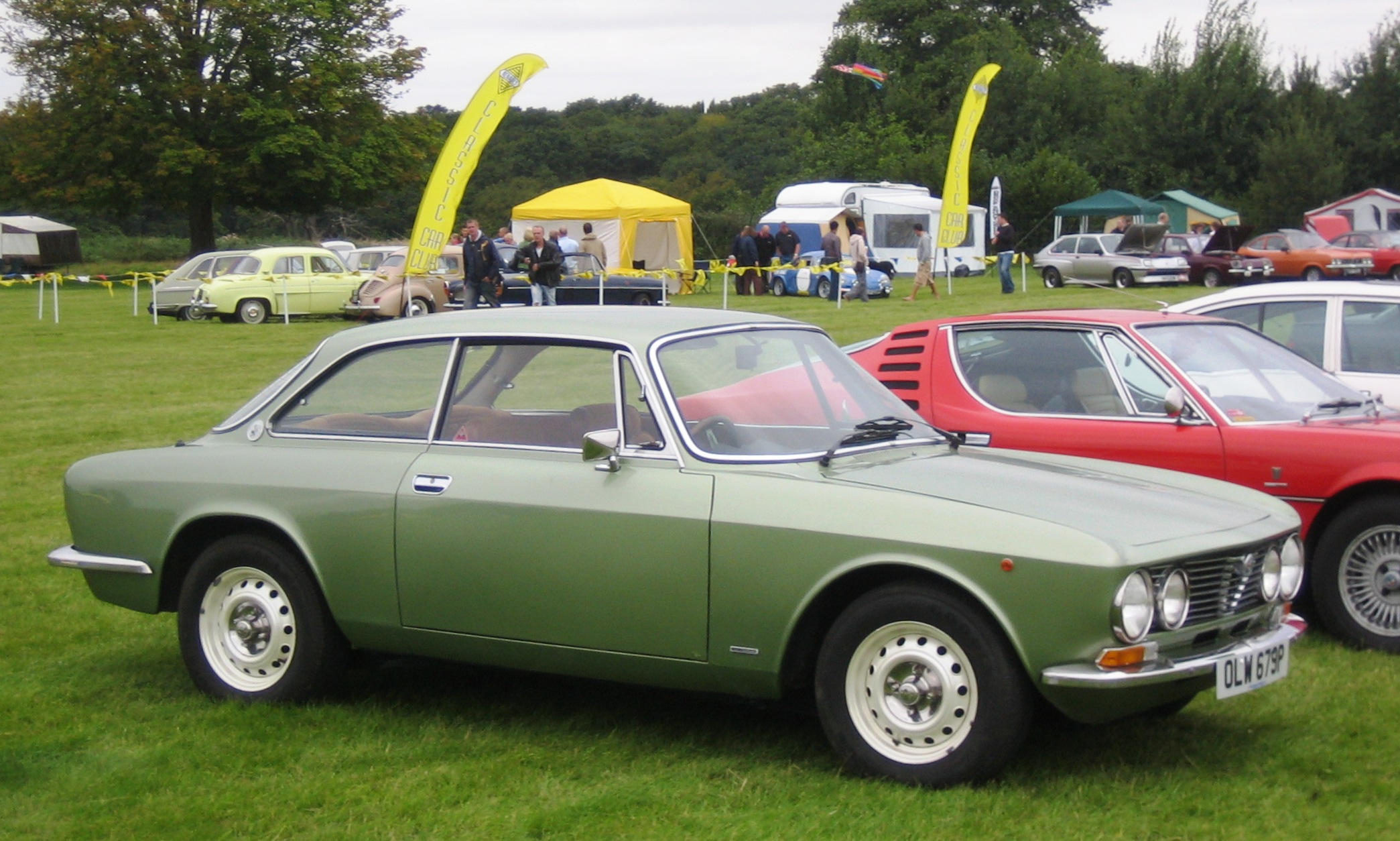 1976 Alfa Romeo GT 1600 Junior